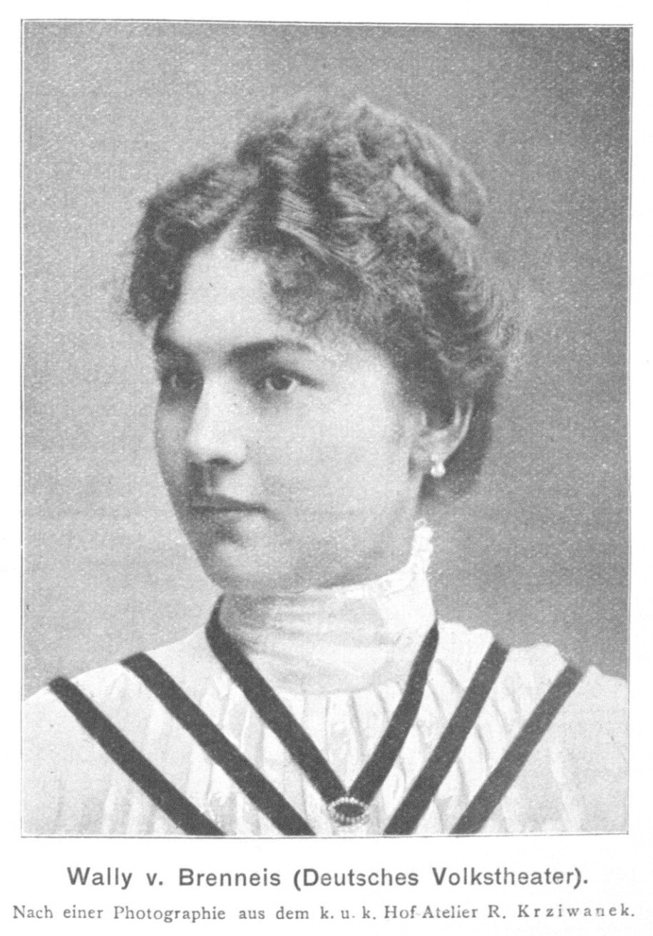 Portrait of Vally von Brenneis (1883-??), Austrian actress.